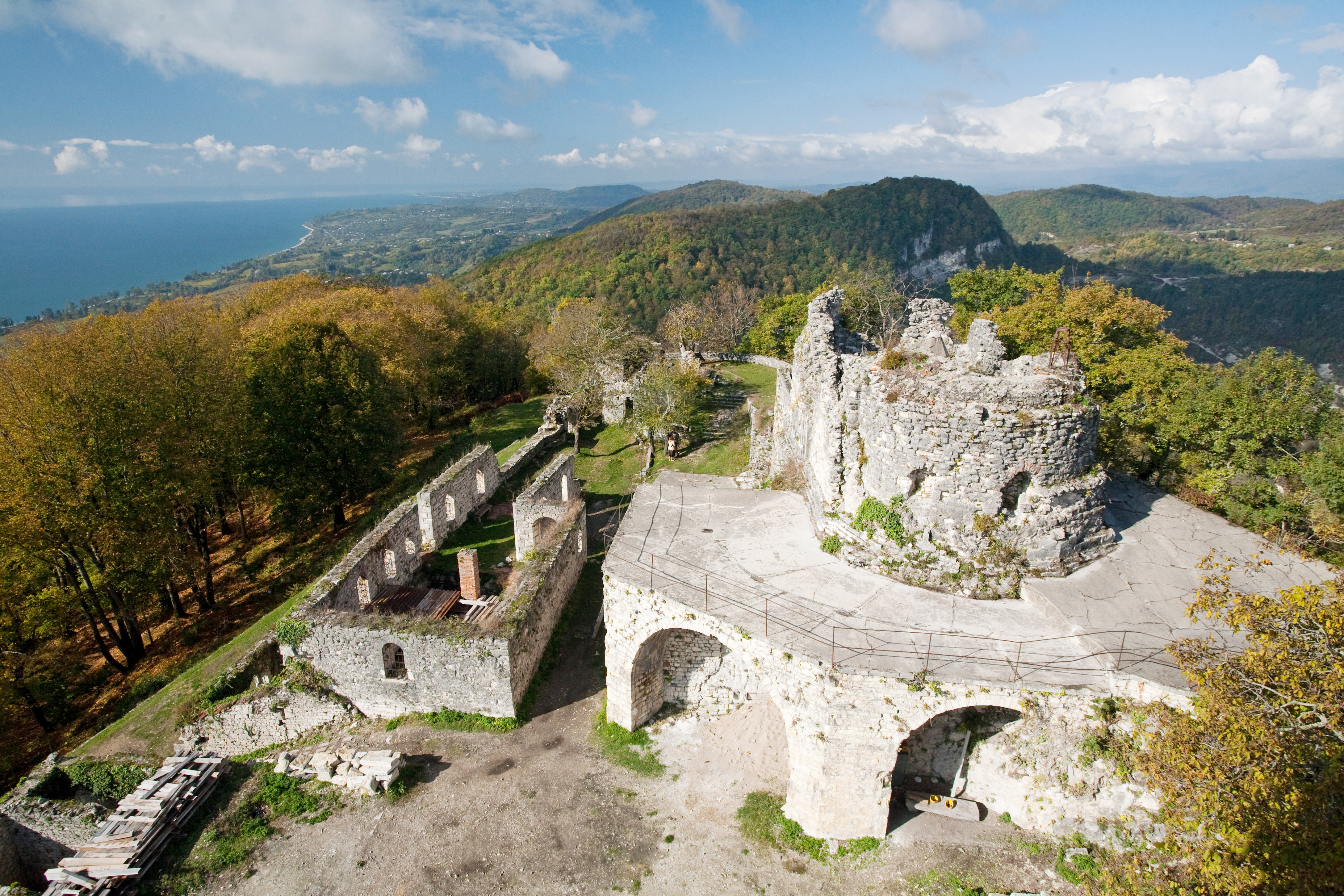 New Athos